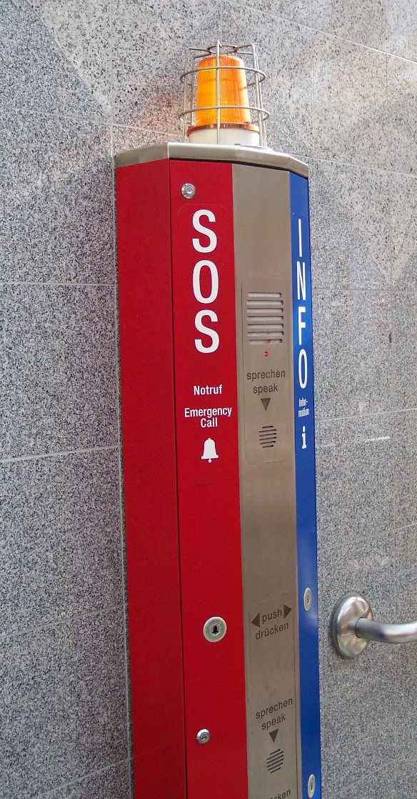 Emergency / information telephone of the Essener Verkehrs-AG.